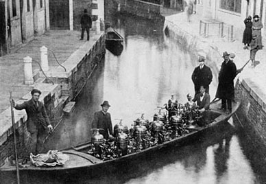 Delivery of espresso machines in Venice at the beginning of the 20 century, Italy.